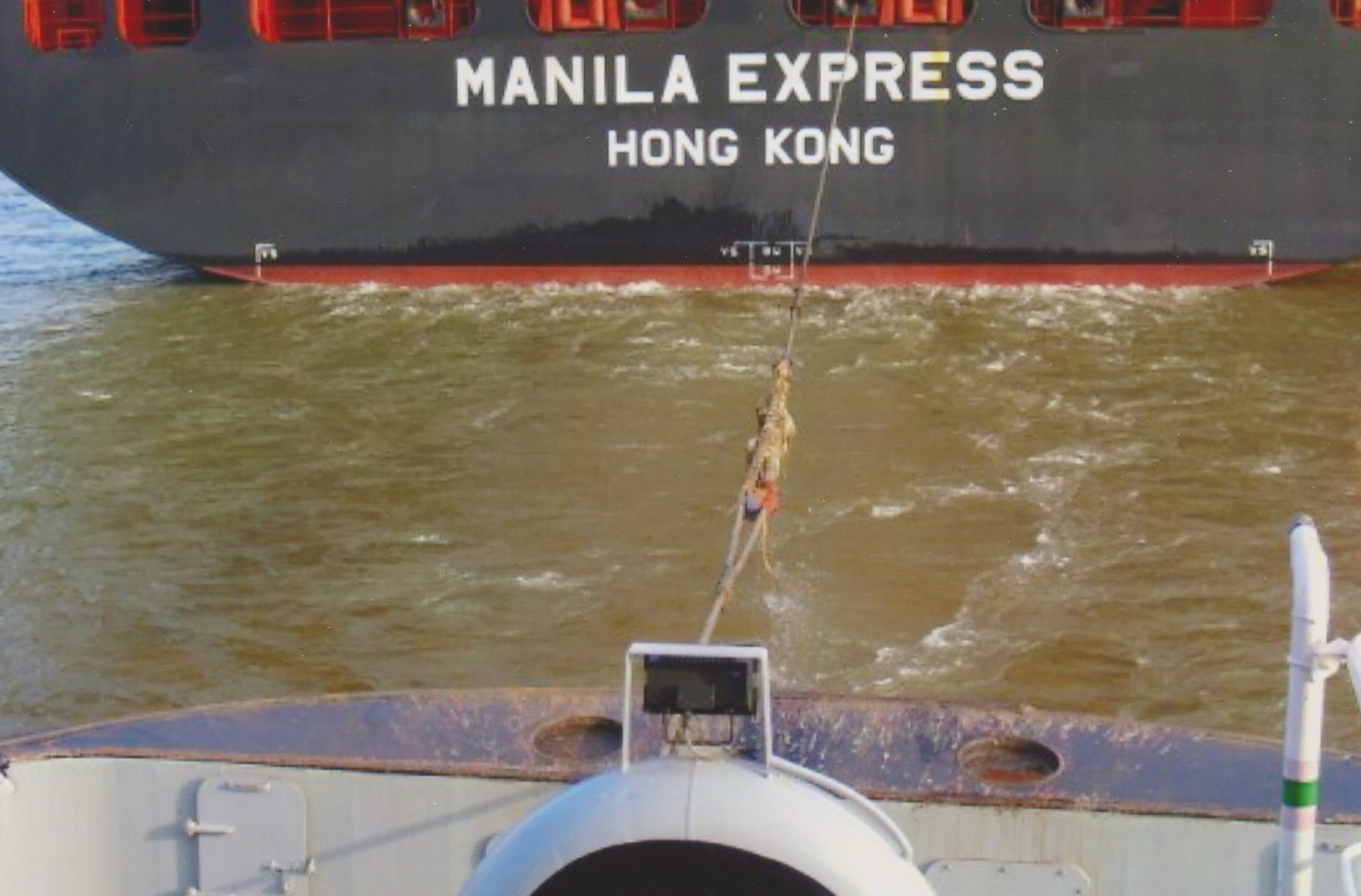 The stern tow rope is fixed to the container ship Manila Express, the drag is started